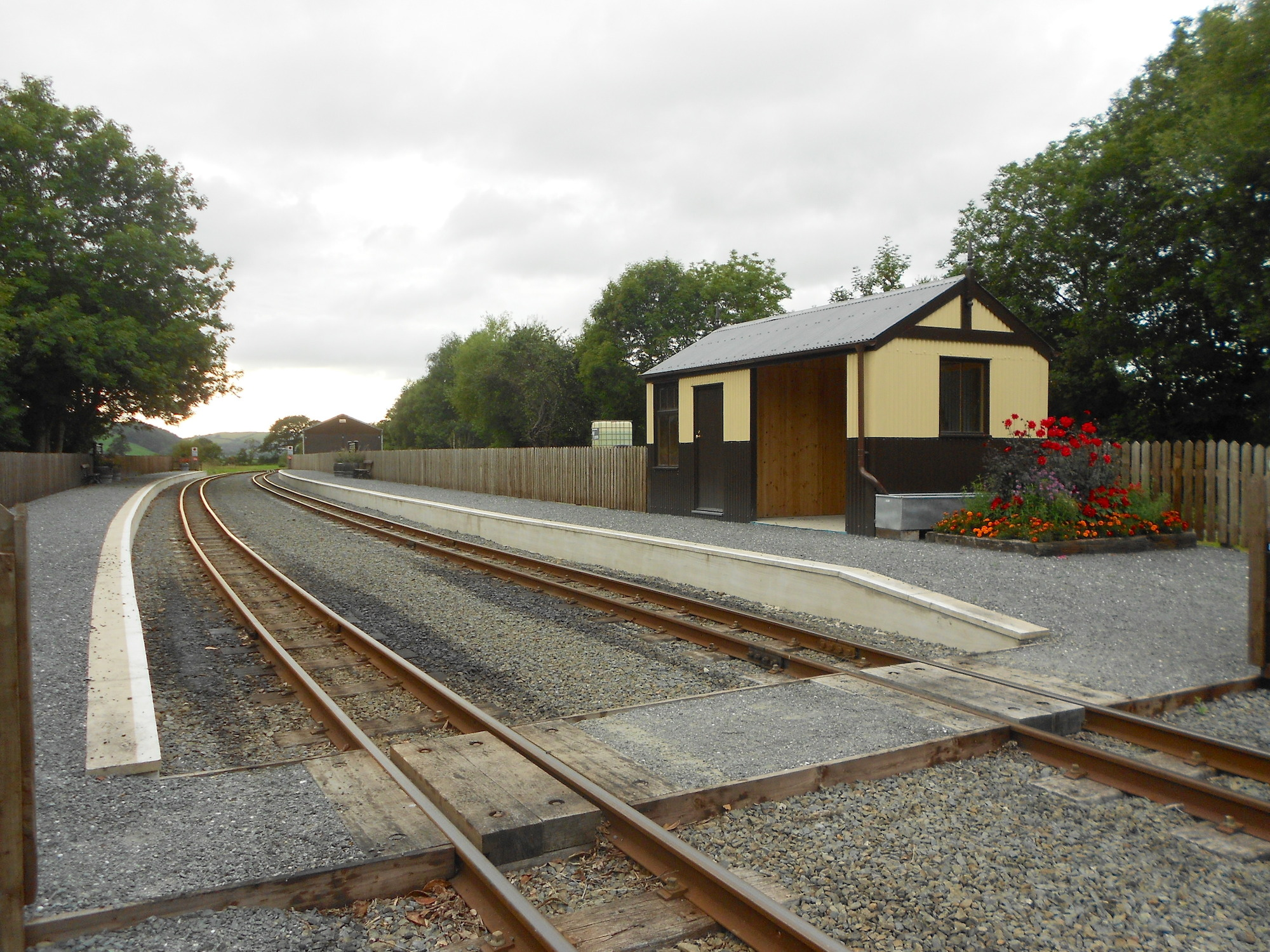 A panoramic view of Capel Bangor railway station on the Vale of Rheidol Railway in Wales.